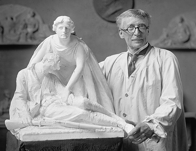 American sculptor George Julian Zolnay (1863-1949)